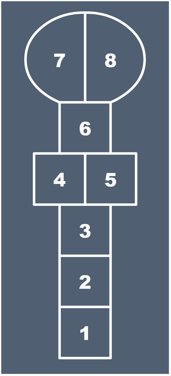 Șotron românesc Romanian Hopscotch